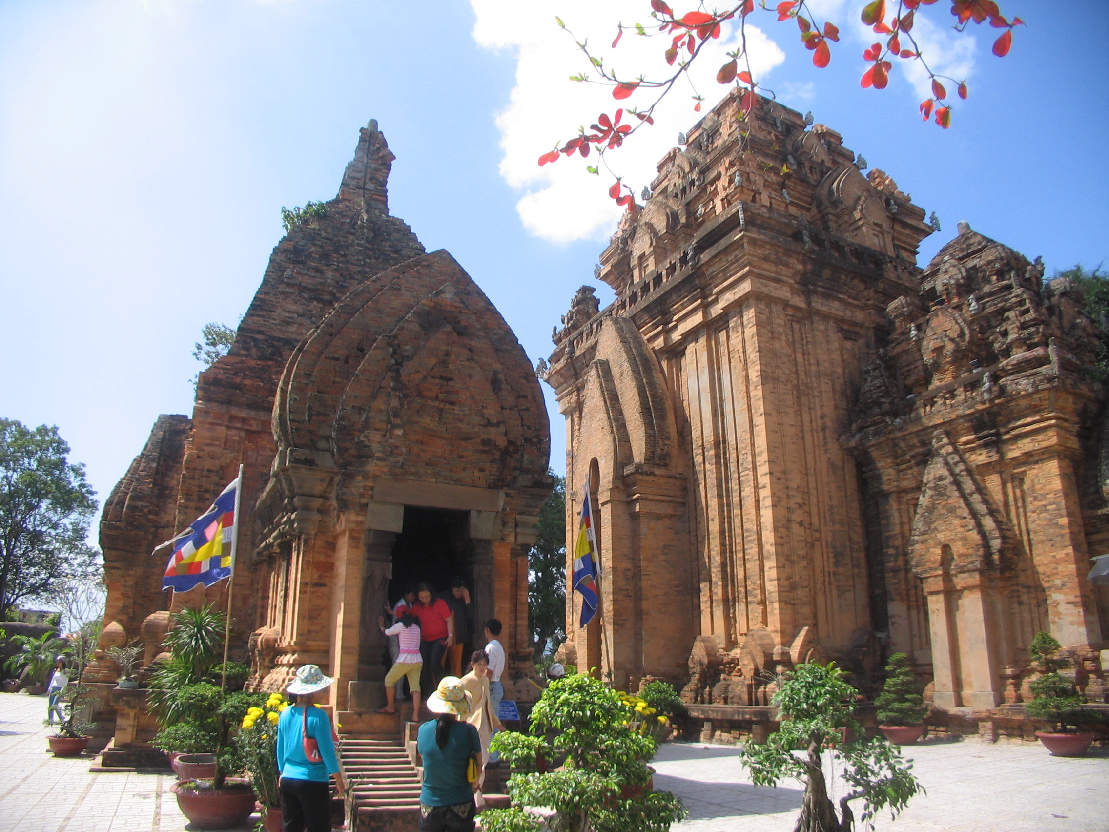 Po Nagar Towers.